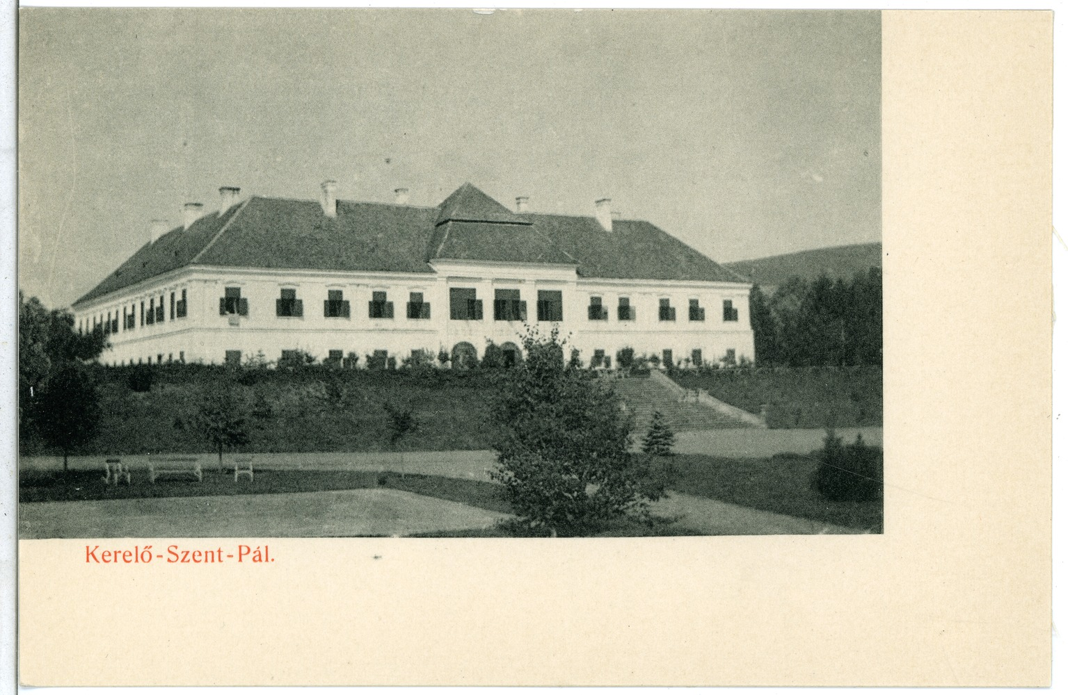 This postcard is from publisher Brück & Sohn in Meißen ( This postcard has a unique number 09610 and is available in a higher resolution at the publisher. This images was uploaded in a cooperation project between Wikipedians and the publisher.